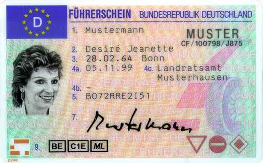 Specimen for the European driving licence used in Germany, front side